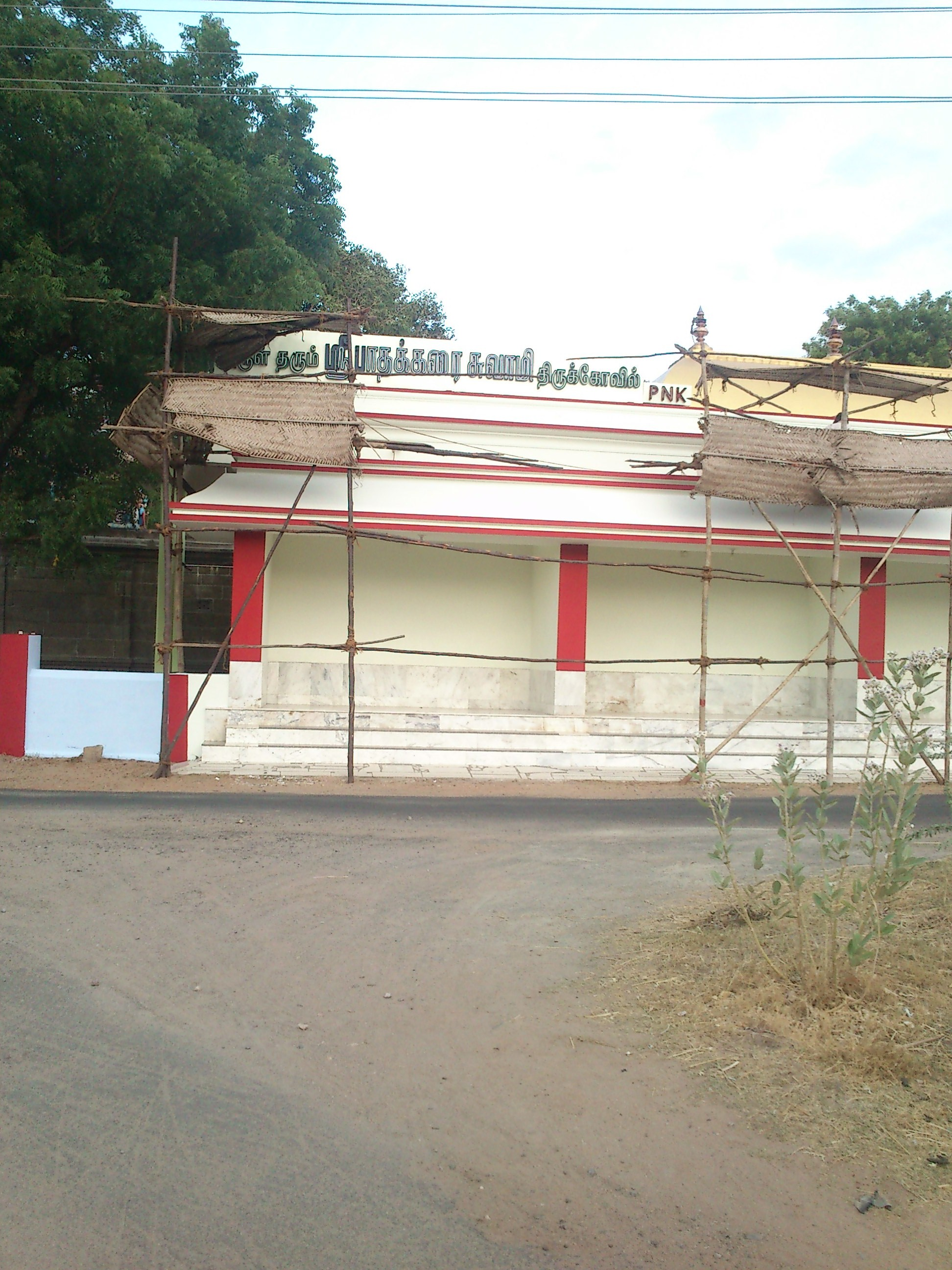 Temple